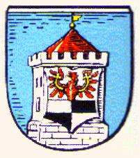 coat of arms of (Węgorzewo)